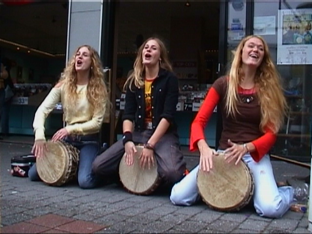 Treble in 2005, Amersfoort